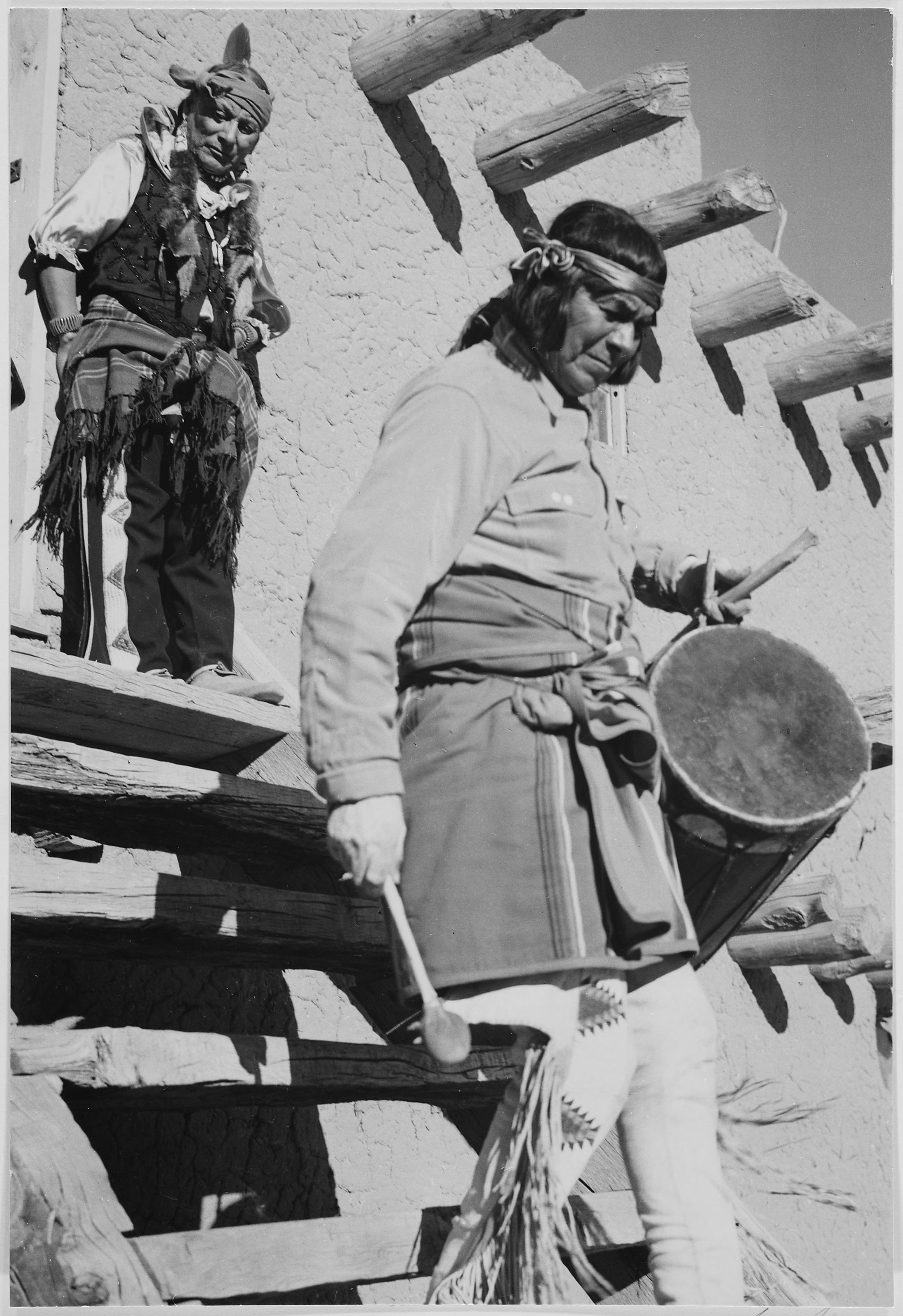 Tewa descending wooden stairs with drum, another in background looking on, "Dance, San Ildefonso Pueblo, New Mexico, 1942." (vertical orientation); From the series Ansel Adams Photographs of National Parks and Monuments, compiled 1941 - 1942, documenting the period ca. 1933 - 1942.